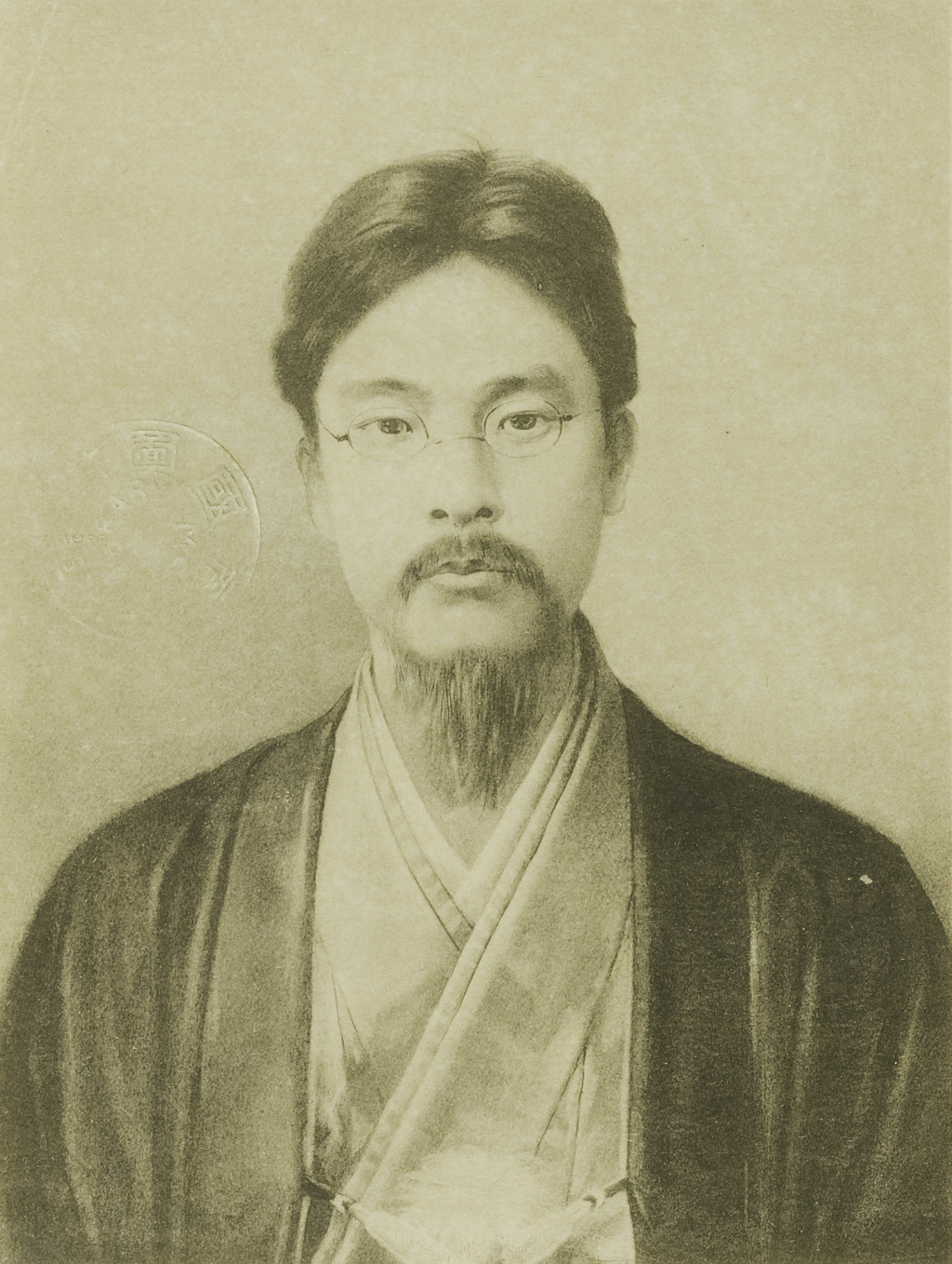 Portrait of Ono Azusa (小野梓, 1852 – 1886)